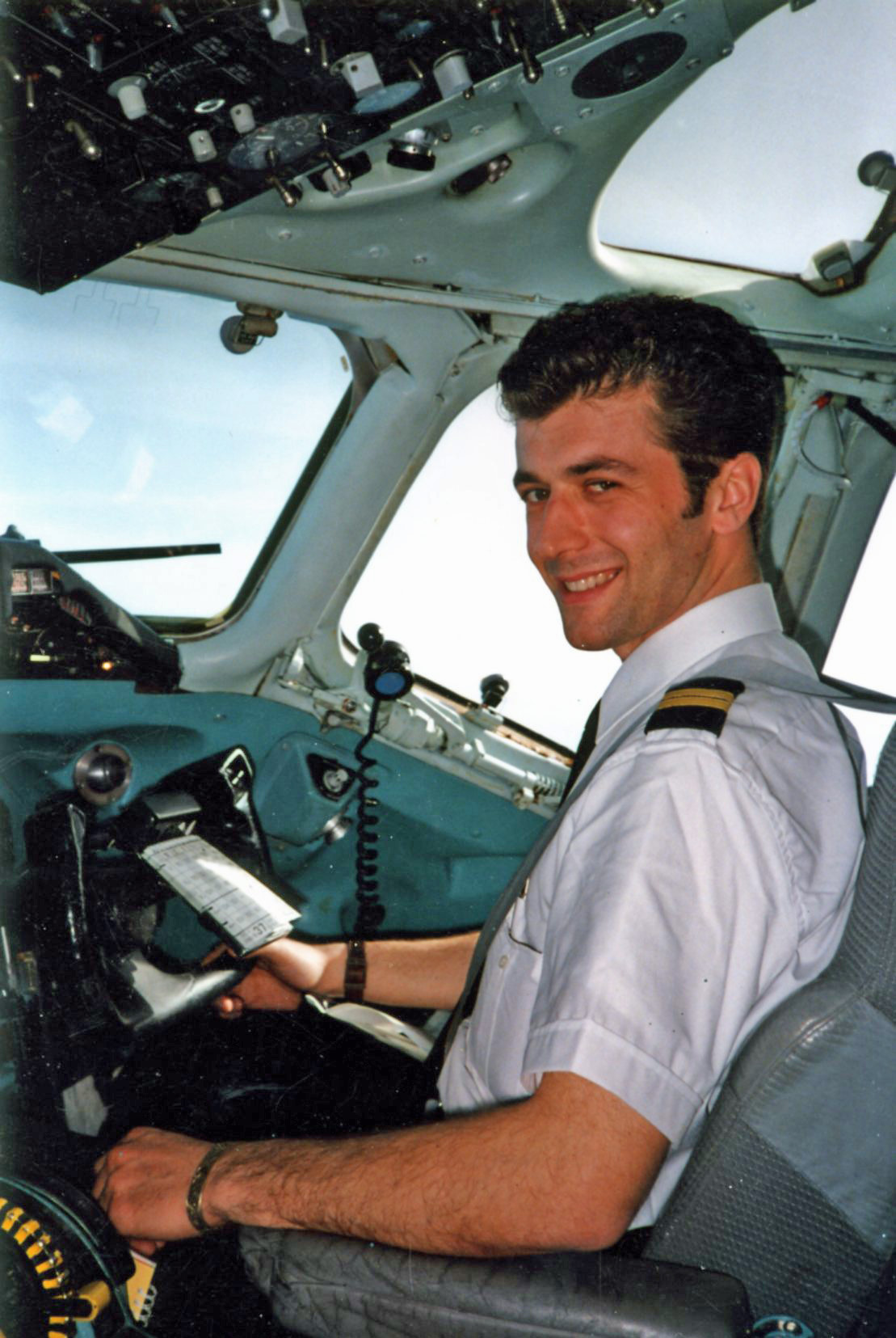 Alberto Nassetti, an Italian aviator, in a cockpit of an airliner